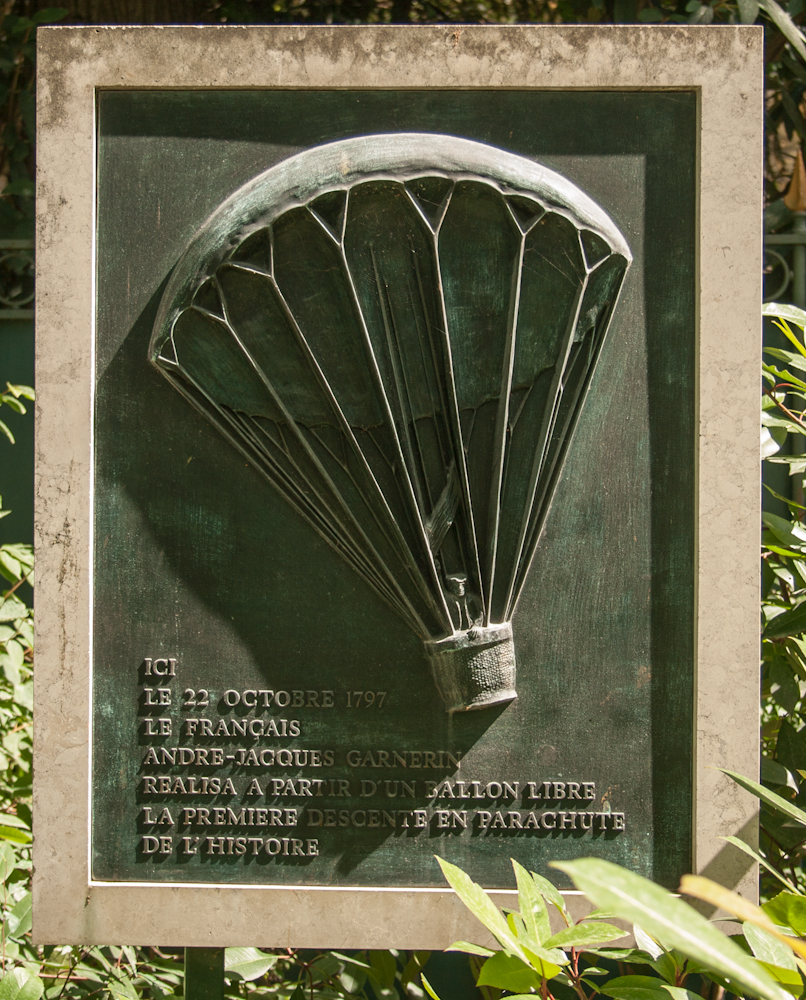 The memorial plaque in Paris, parc Monceau, installed for the first in the history drop made on this place by André-Jacques Garnerin in 1797, October 27label QS:Len,"The memorial plaque in Paris, parc Monceau, installed for the first in the history drop made on this place by André-Jacques Garnerin in 1797, October 27" label QS:Lhu,"Emléktábla az első ejtőernyős ugrás emlékére, Parc Monceau, Párizs"